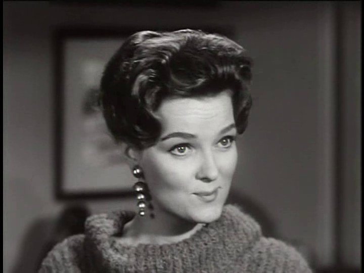 Actress Betsy Jones-Moreland in episode "Murder Is A Grave Affair" of the serie "Philip Marlowe" (Public Domain)